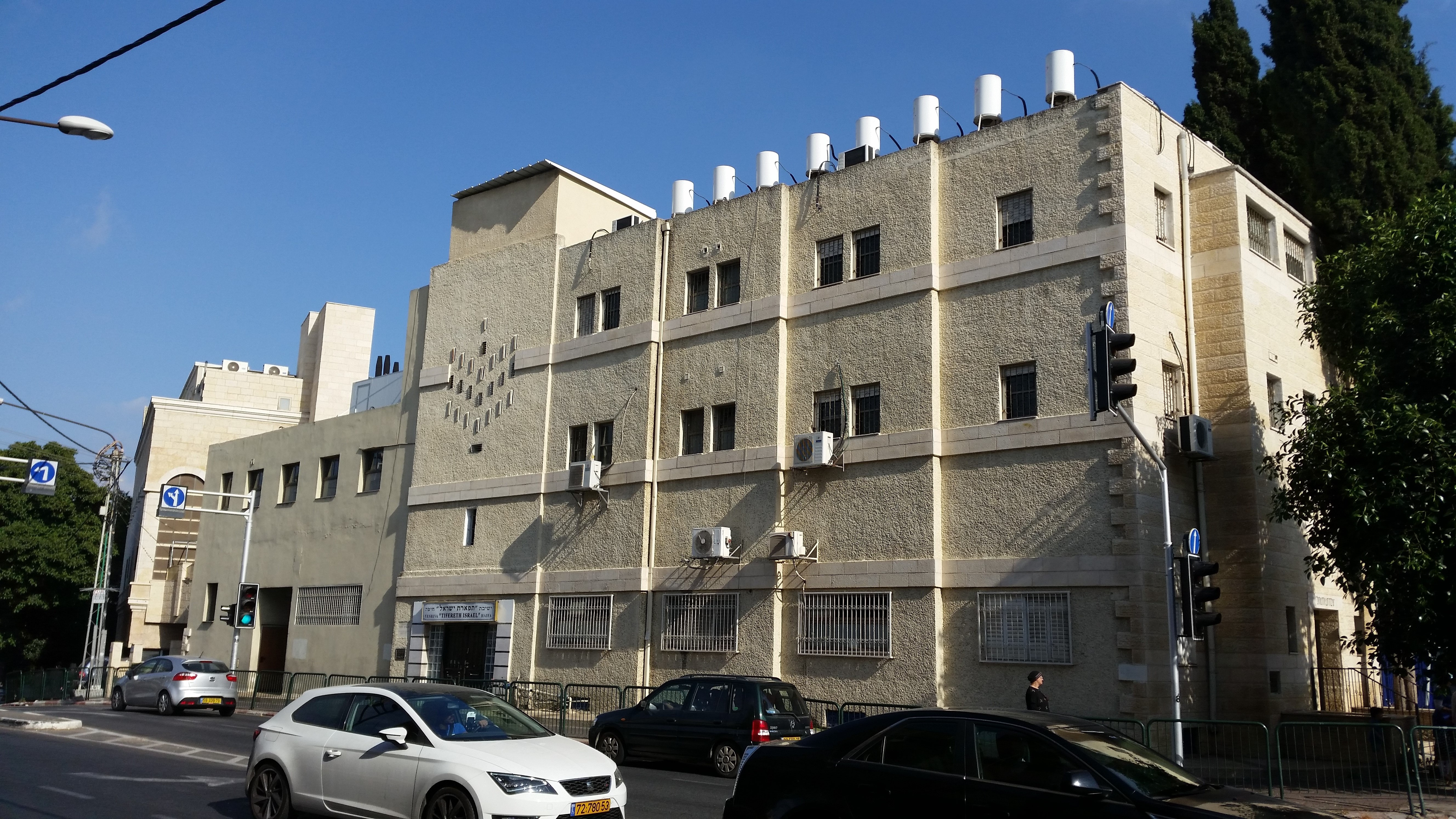 'Tiferet Israel' Yeshiva in Haifa, Israel